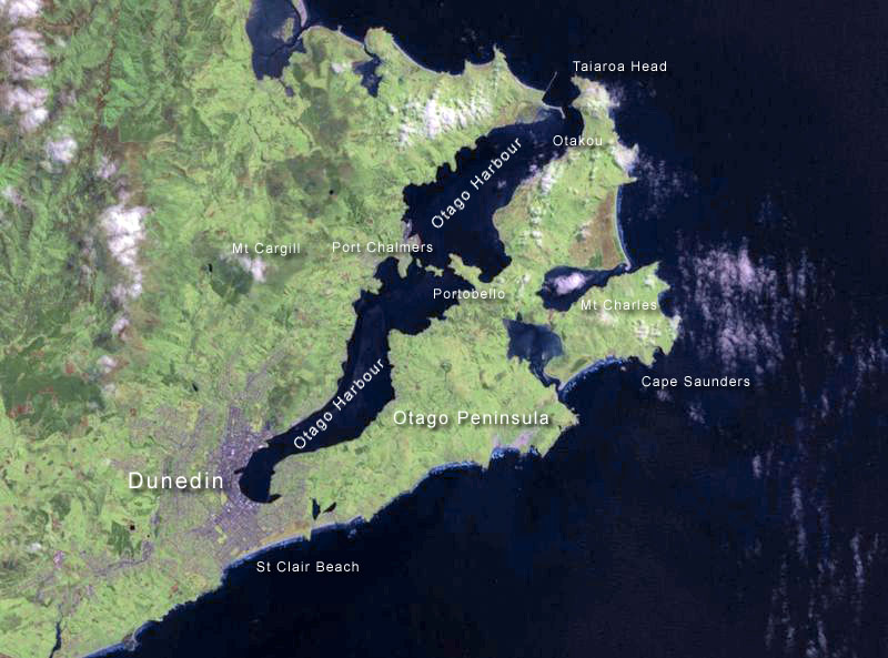 Dunedin, Otago Peninsula, New Zealand. Otago Harbour from satellite, contrast changed and objects named.